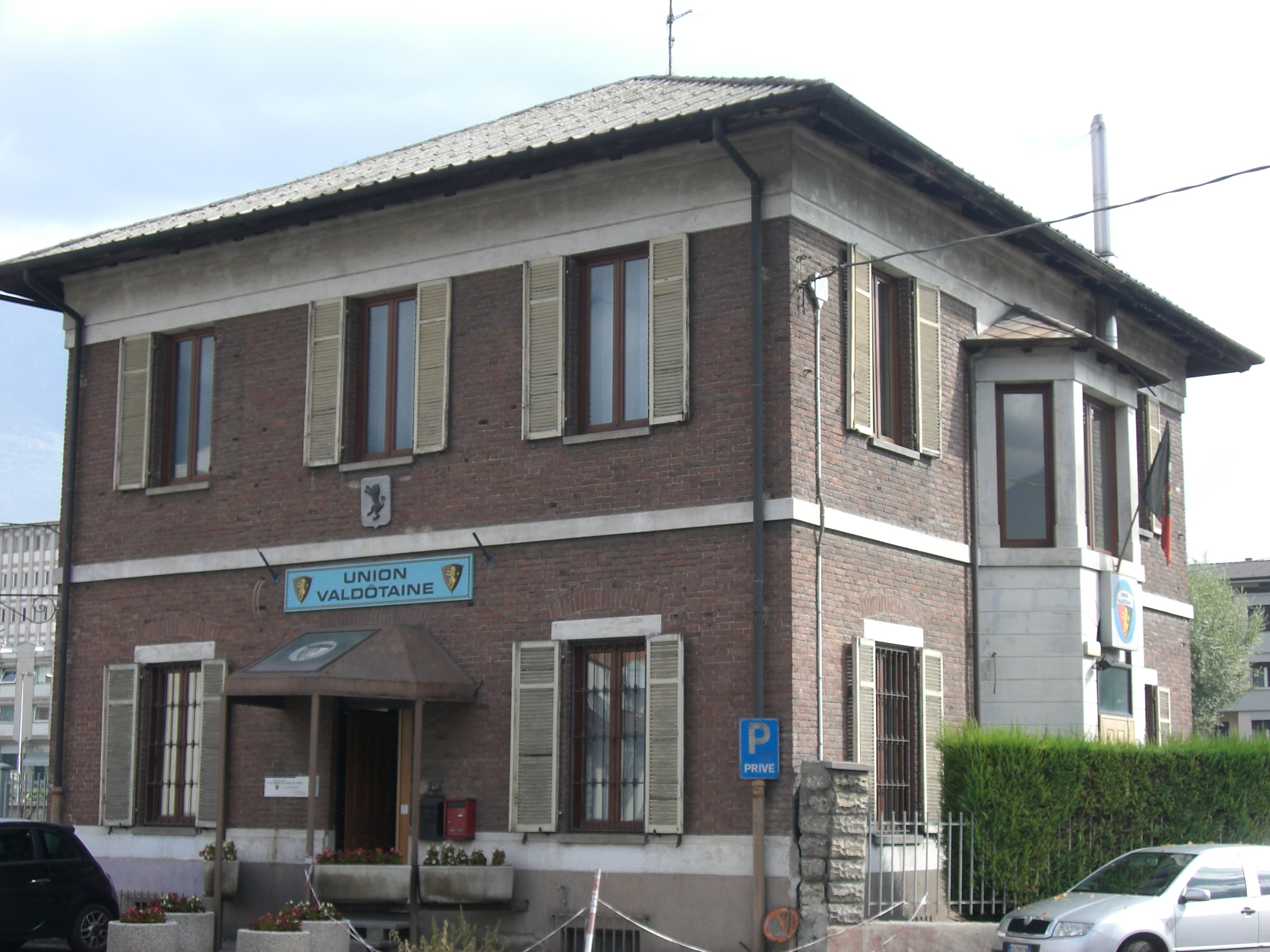 The headquarters of « Union valdôtaine » party, in Aosta/Aoste (Italy)